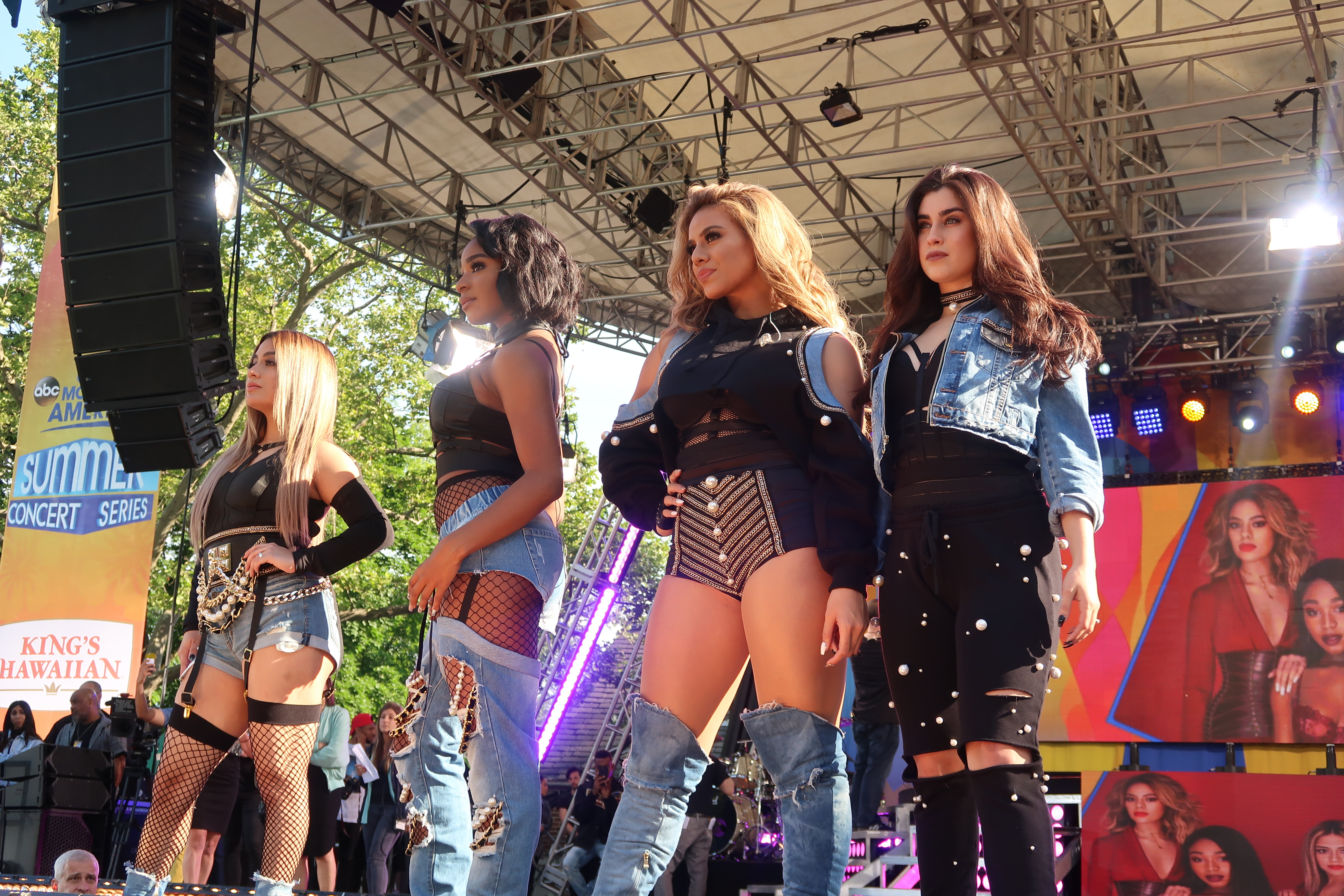 Fifth Harmony performing their new single "Down" at Good Morning America in NYC on June 2nd, 2017